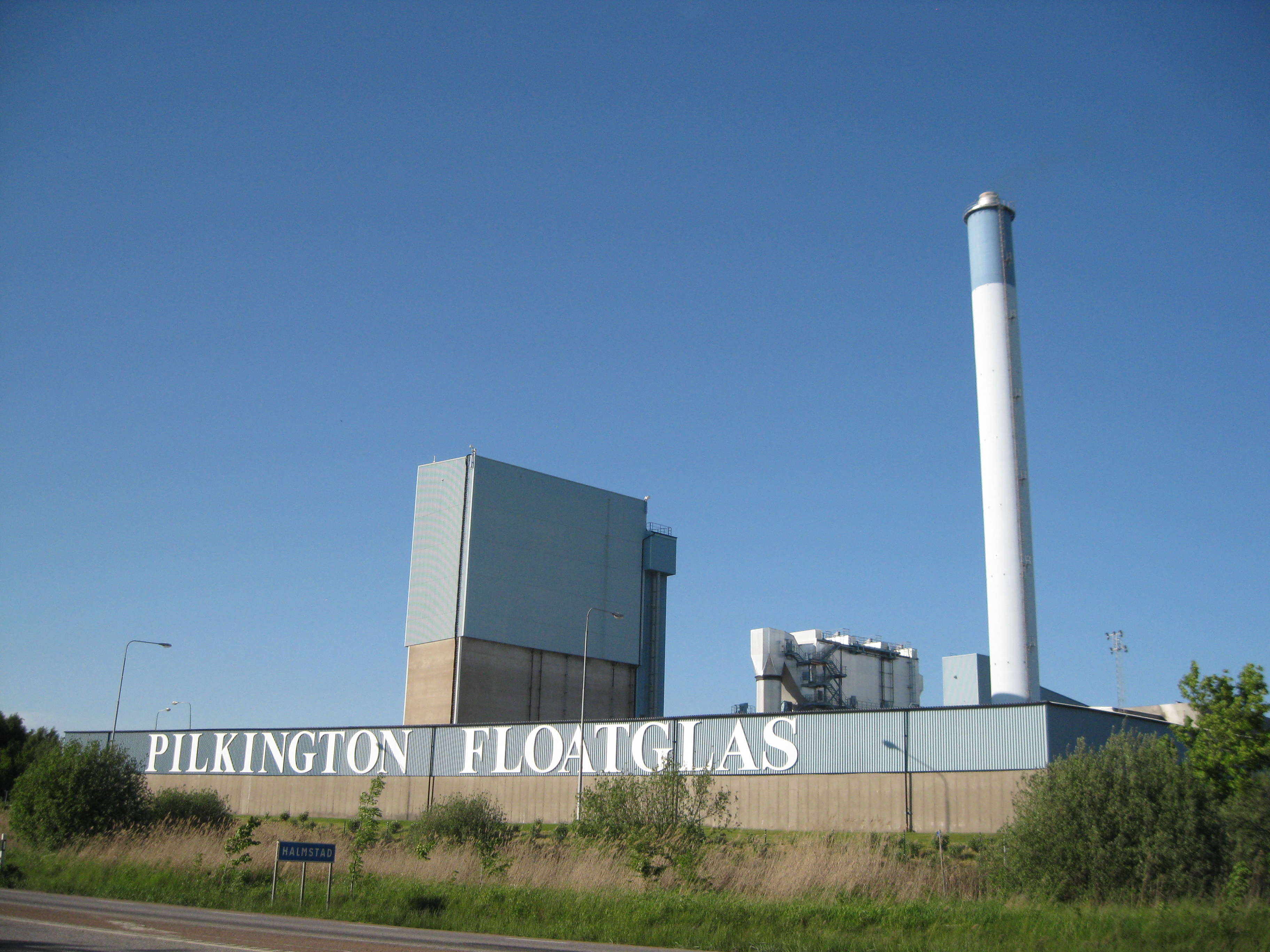 Pilkington Floatglas, Halmstad, Sweden.